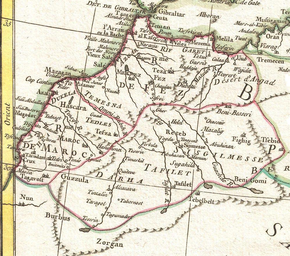 Map of the Empire of Morocco, 1771. “the Kingdoms of Fez, Morocco, Etc. By T. Kitchin. Geogr.” London. 1771